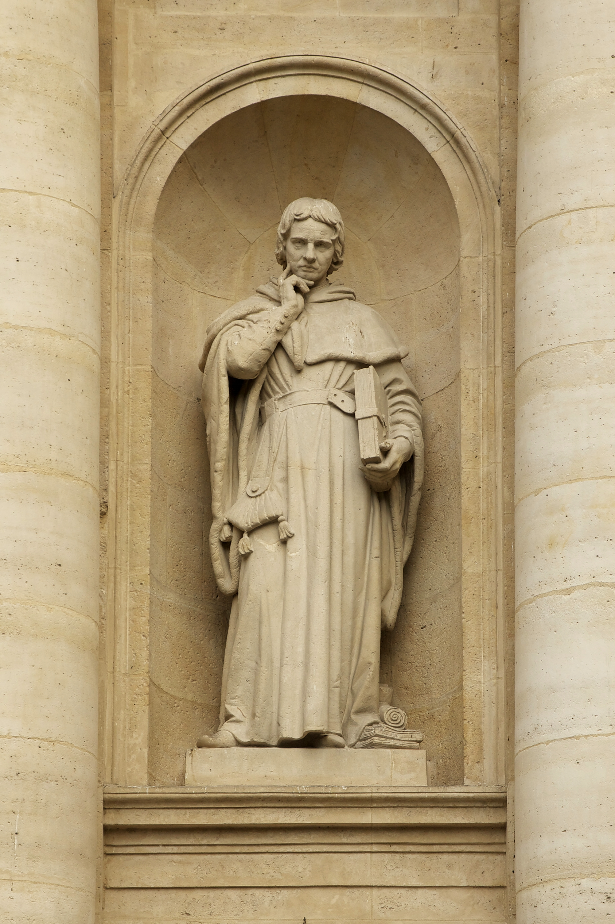 Statue of Jean Gerson (1363-1429) by Joseph Félon (1818–1896). Façade of the chapel of the Sorbonne, Paris, France.